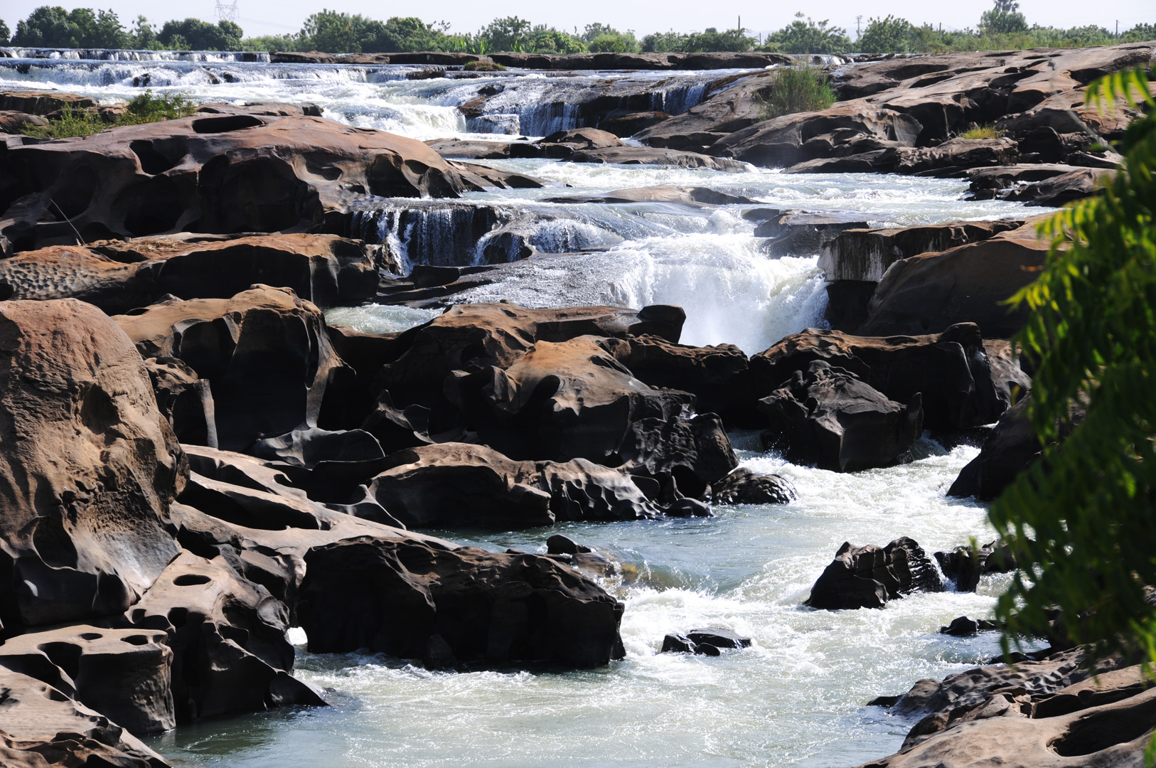 Felou falls